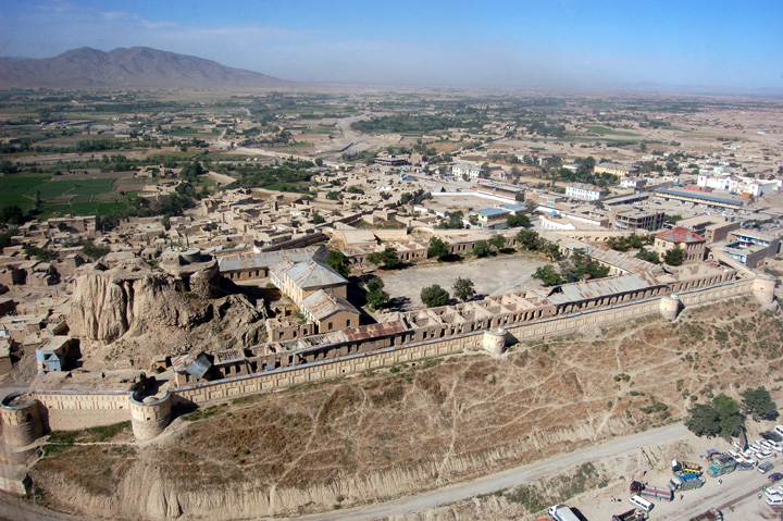 The old fortress in Gardez City. Originally built by the armies of Alexander the Great, and subsequently rebuilt by many of the invading armies to pass through Gardez, including the British and Soviets. The fortress, colloquially known as 'Castle Greyskull' by American troops in the area, is currently home to an Afghan National Army detachment. U.S. Air Force photo by 1st Lt. John Severns